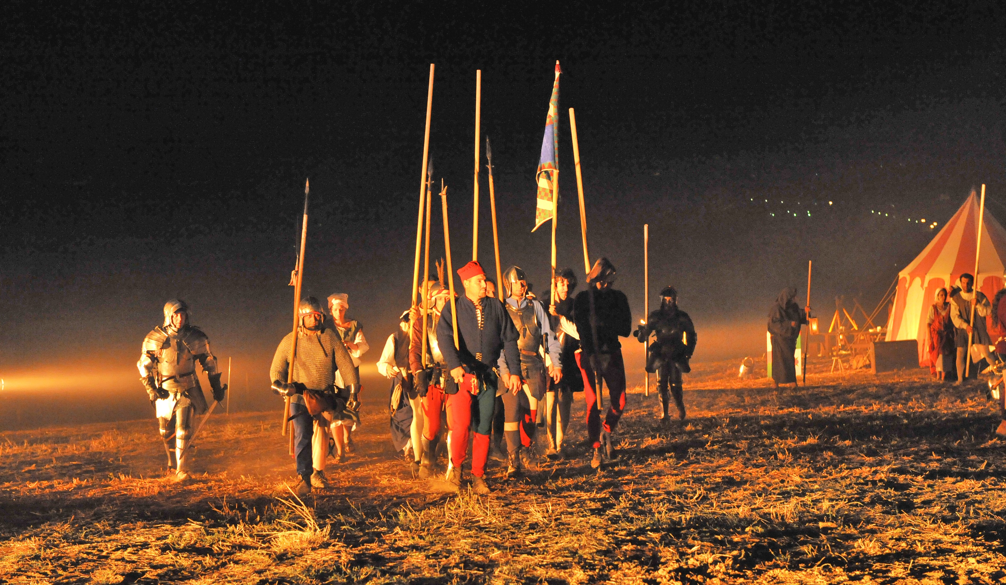 Historical reenactment "Siege to the Castle". The great siege of Gradara in 1446